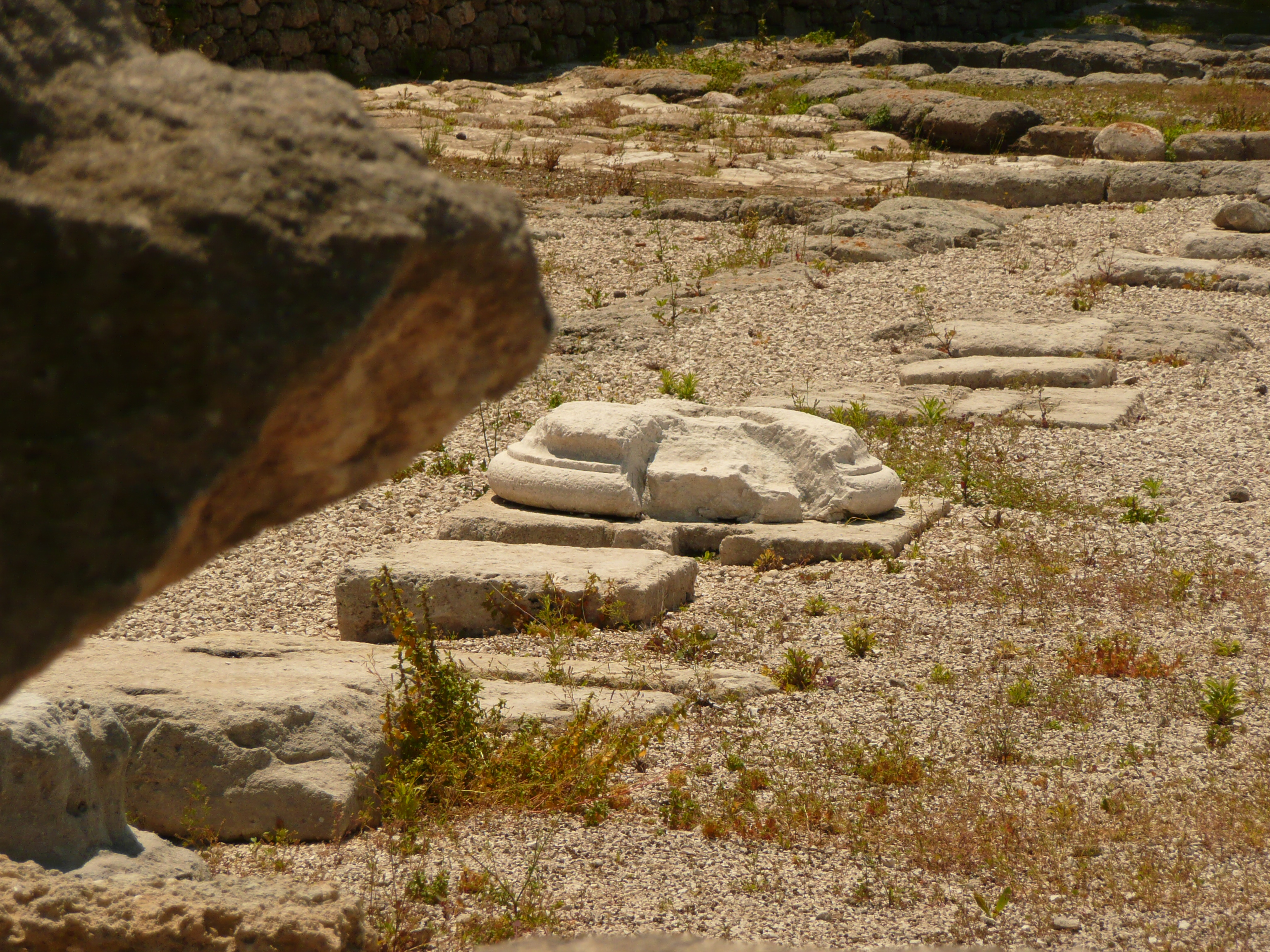 Parque arqueológico de Egnazia, Apulia.